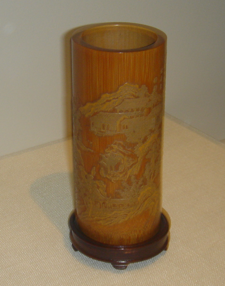 A bamboo brush holder or holder of poems on scrolls, created by Zhang Xihuang in the 17th century, late Ming or early Qing Dynasty. In fanciful Chinese calligraphy in Zhang's style, the poem Returning to My Farm in the Field by the 4th century poet Tao Yuanming is incised on this cylindrical bamboo holder. From the Freer and Sackler Galleries of Washington D.C. Author: User:PericlesofAthens Date: August 3, 2007